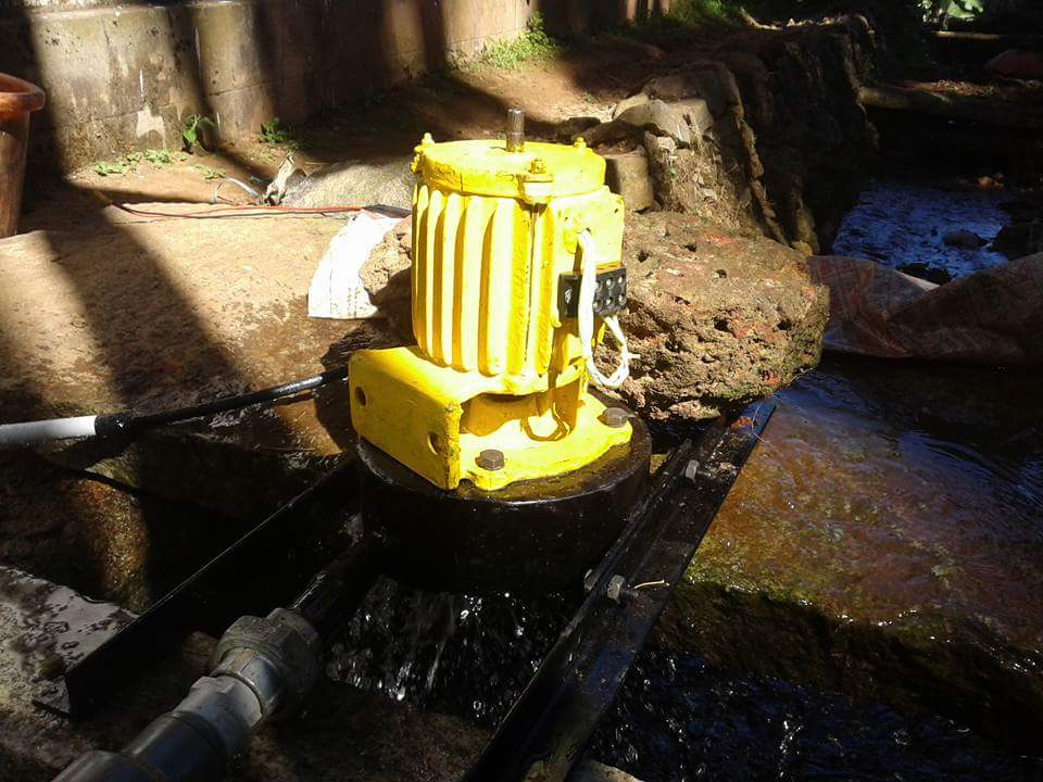 A pico hydroelectric power plant installed near Sringeri, Karnataka